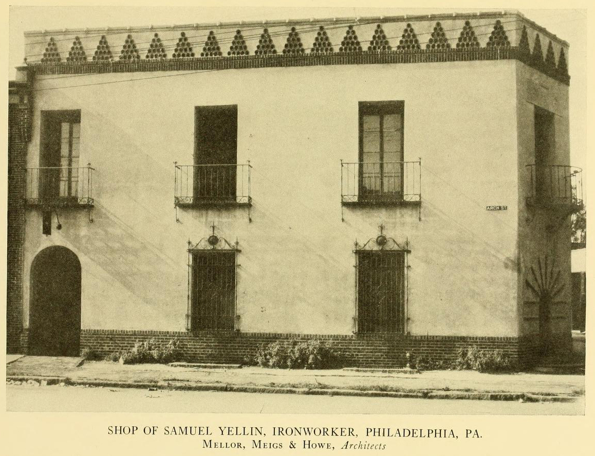 Shop of Samuel Yellin, Ironworker, Philadelphia, PA.